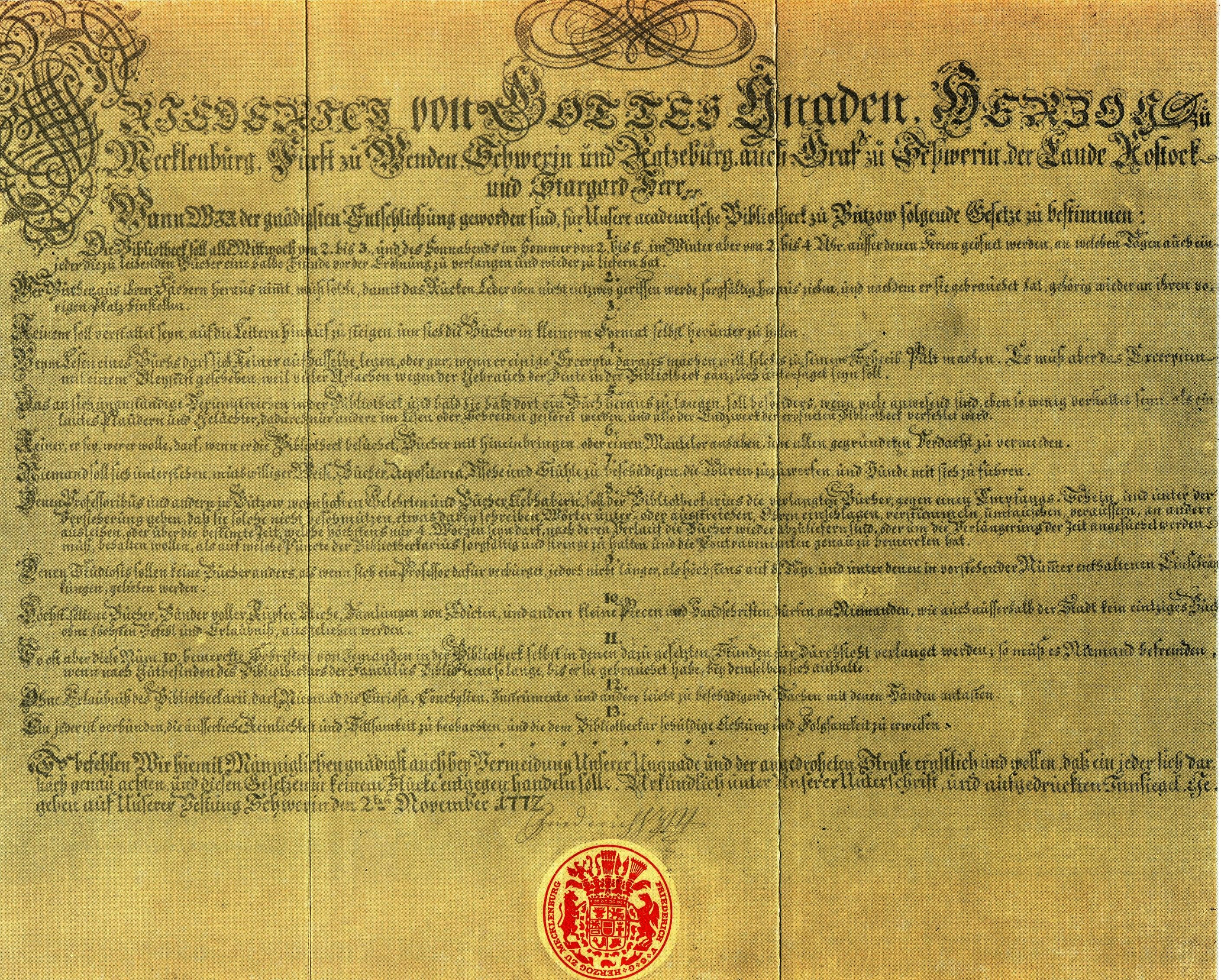 Bützow: Photo of the Gesetze für die öffentliche Bibliotheck zu Bützow, 1772, With seal and signature of Friedrich Herzog zu Mecklenburg.